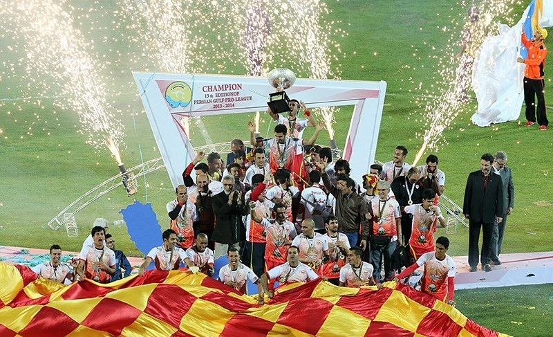 Foolad F.C. won their second Iran Pro League (Persian Gulf Pro League) title